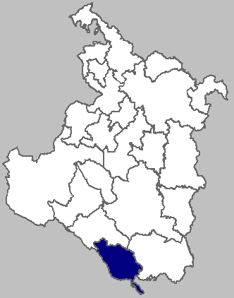 Self-made map of Saborsko municipality within Karlovac County.